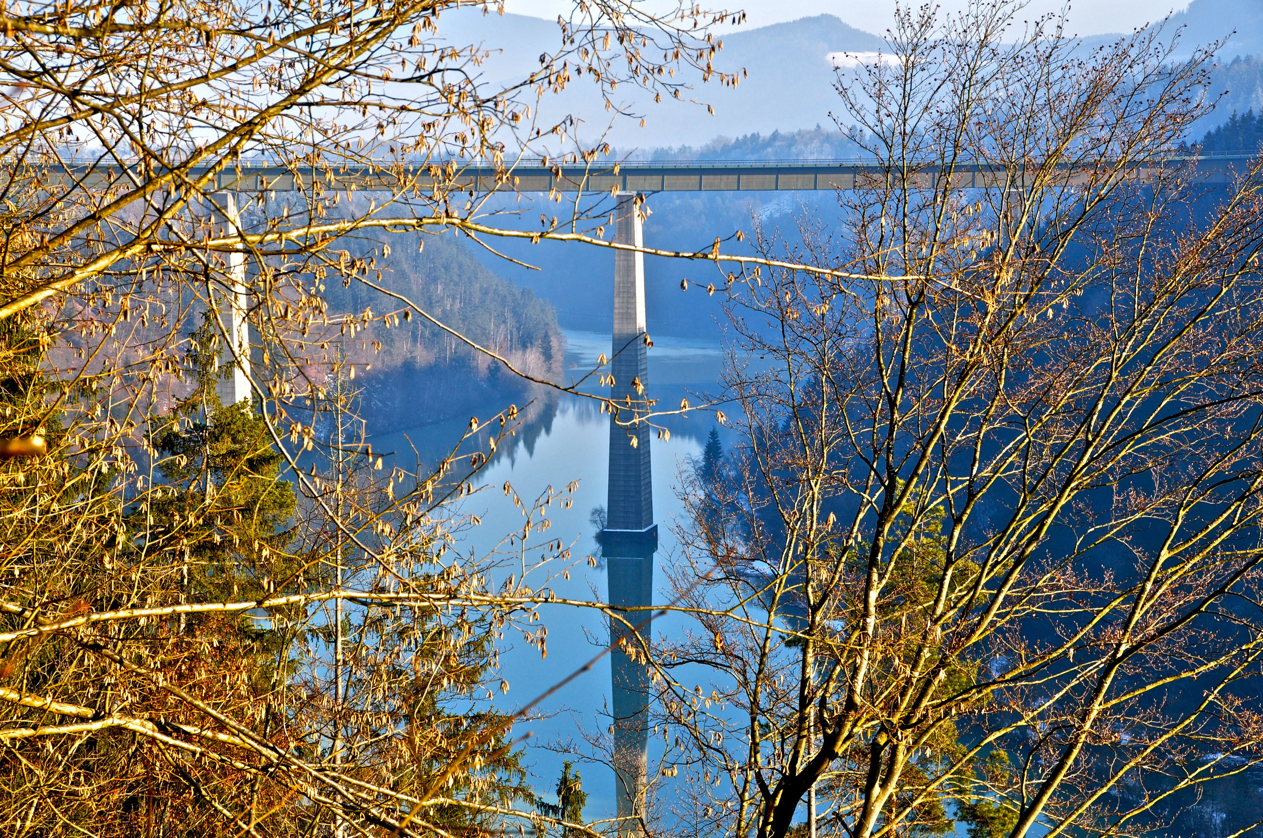 Railway bridge across the Drava near Eis, municipality Ruden, district Voelkermarkt, Carinthia, Austria